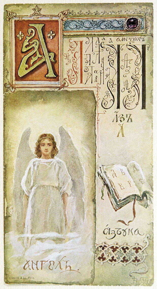 ABC page devoted to Cyrillic А